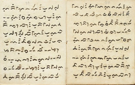 Buginese epic written with the Lontara script in the collection of Indonesian National Library, no. NB 27A